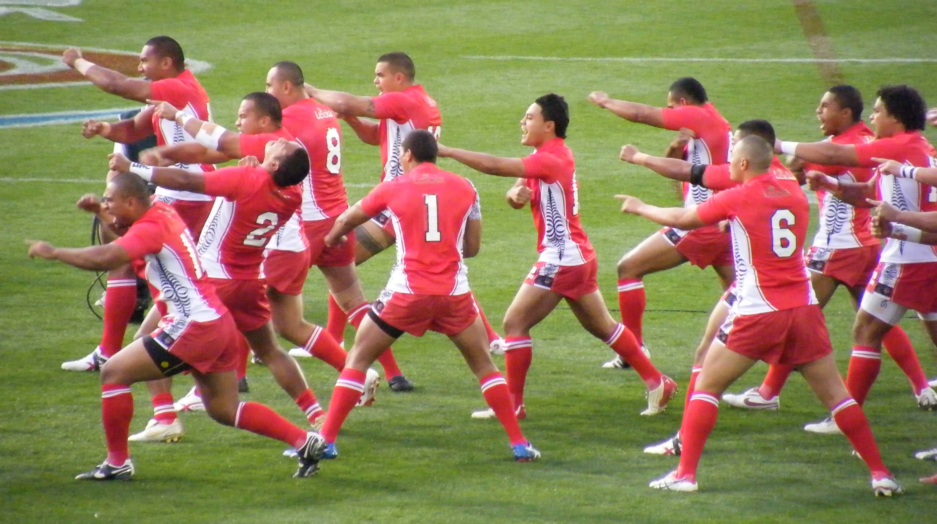 Tonga v Samoa, RLWC Penrith, 2008.